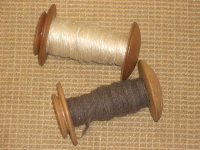 Bobbins of Tinkerbell and Tussah Silk